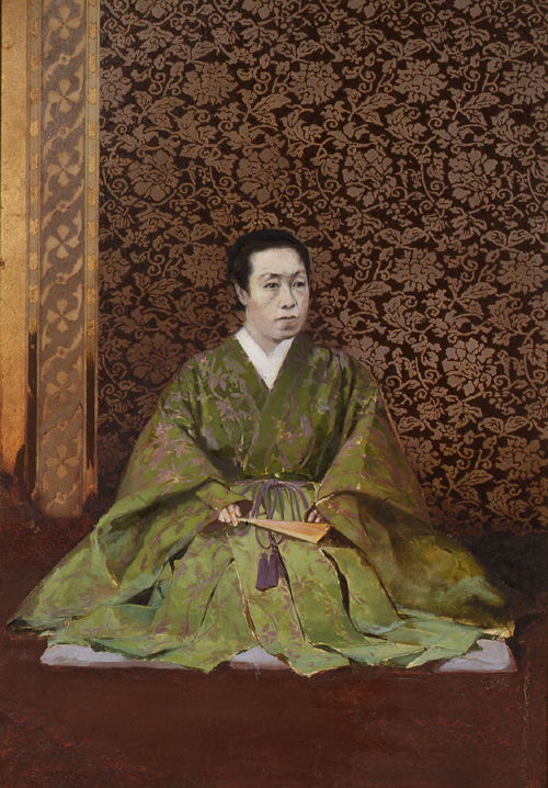 Tenshōin